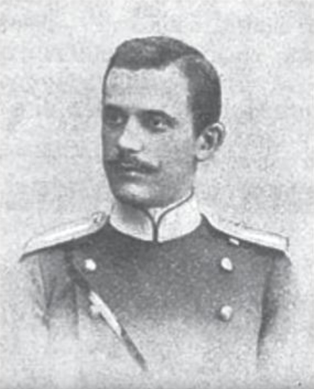 Leo Pokrowsky (born in Warsaw, fallen at Utrecht, ZAR, 25 December 1900) before heading to South Africa